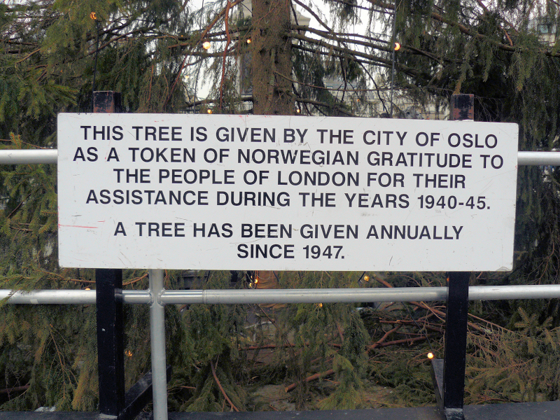 Trafalgar Square, sign at the Trafalgar Square Christmas tree explaining the tree is a gift from the city of Oslo in gratitude for British assistance to Norway during WWII.